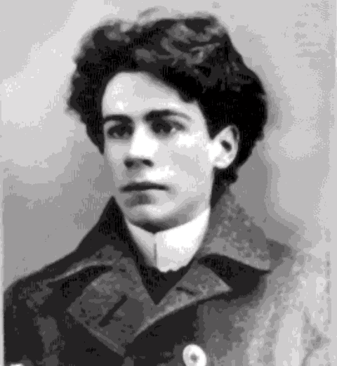 French-Canadian poet Émile Nelligan.